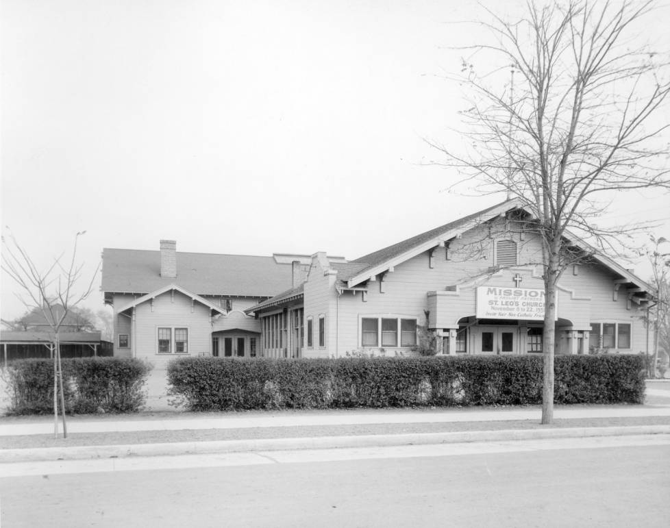 Photo taken b John C. Gordon in 1931 of St Leo the Great Parish at 88 Race Street San Jose, California.